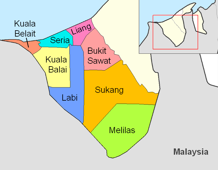 Map of the mukims of the Belait district of Brunei. Created by Rarelibra 21:31, 11 September 2006 (UTC) for public domain use, using MapInfo Professional v8.5 and various mapping resources.